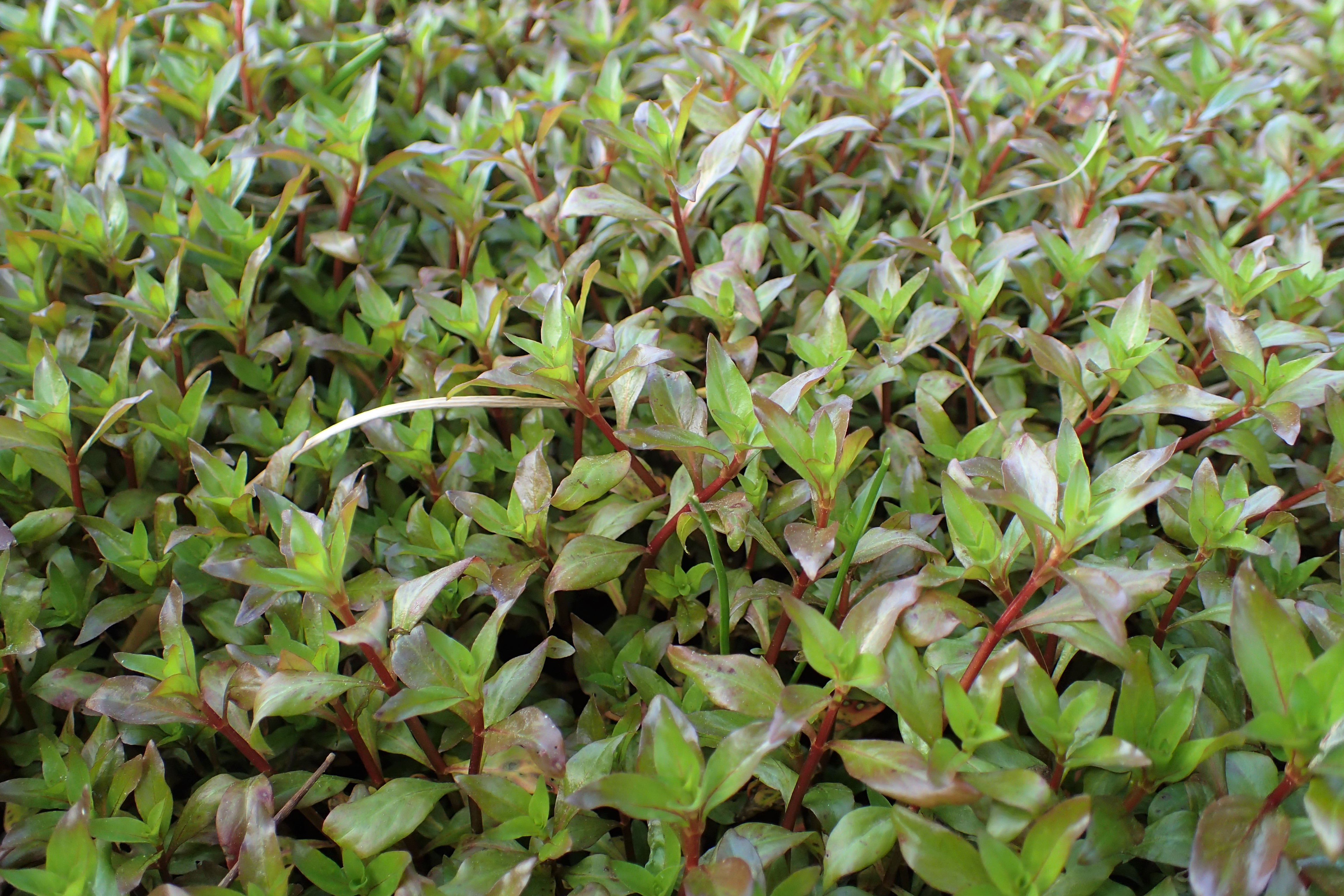 Ludwigia palustris on Lake Wahapo, Westland (New Zealand)